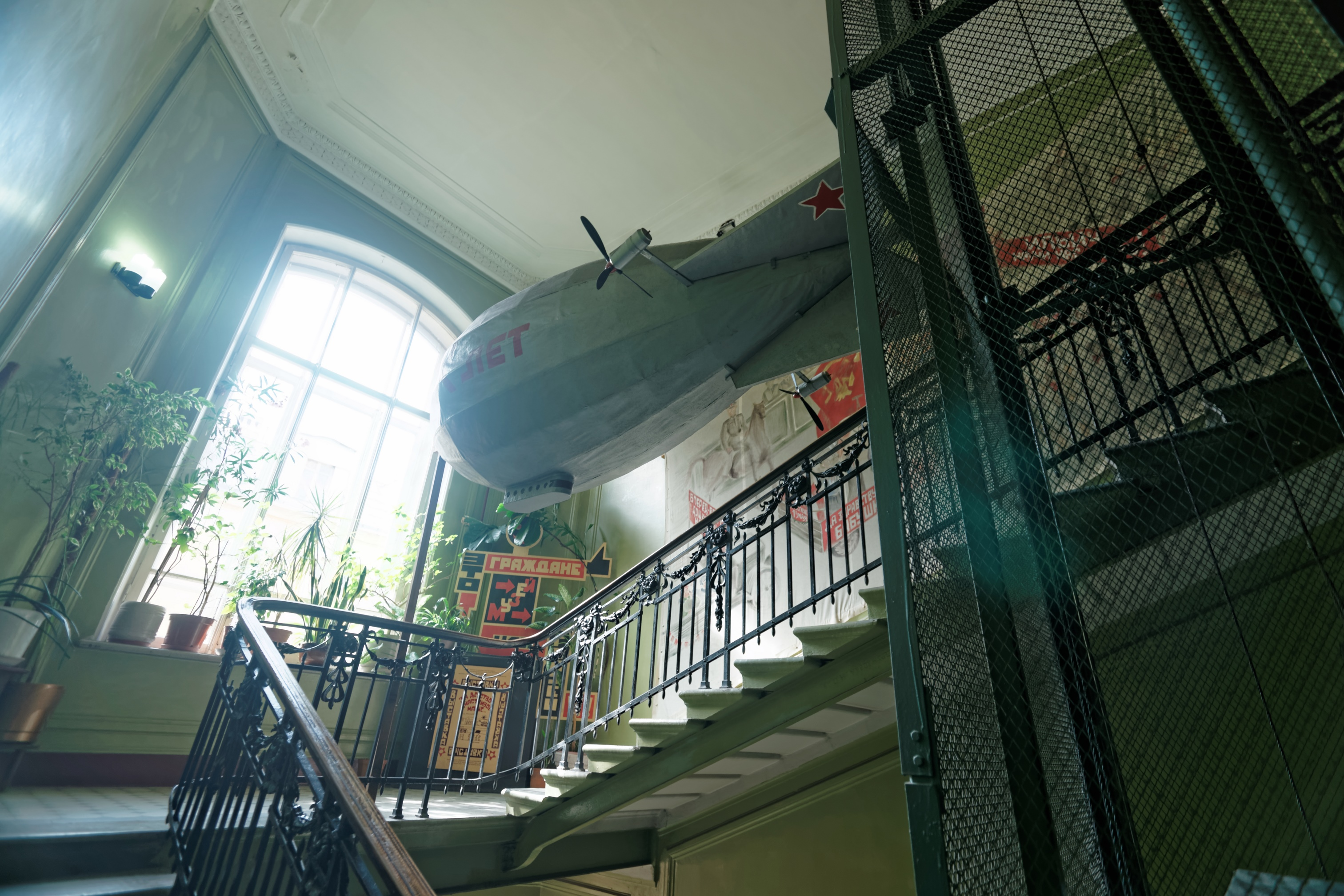 Санкт-Петербург / St Petersburg - Каменноостро́вский проспе́кт / Kamennoostrovsky Prospekt 26-28 - Museum Apartment S.M.Kirov (Серге́й Миро́нович Ки́ров)